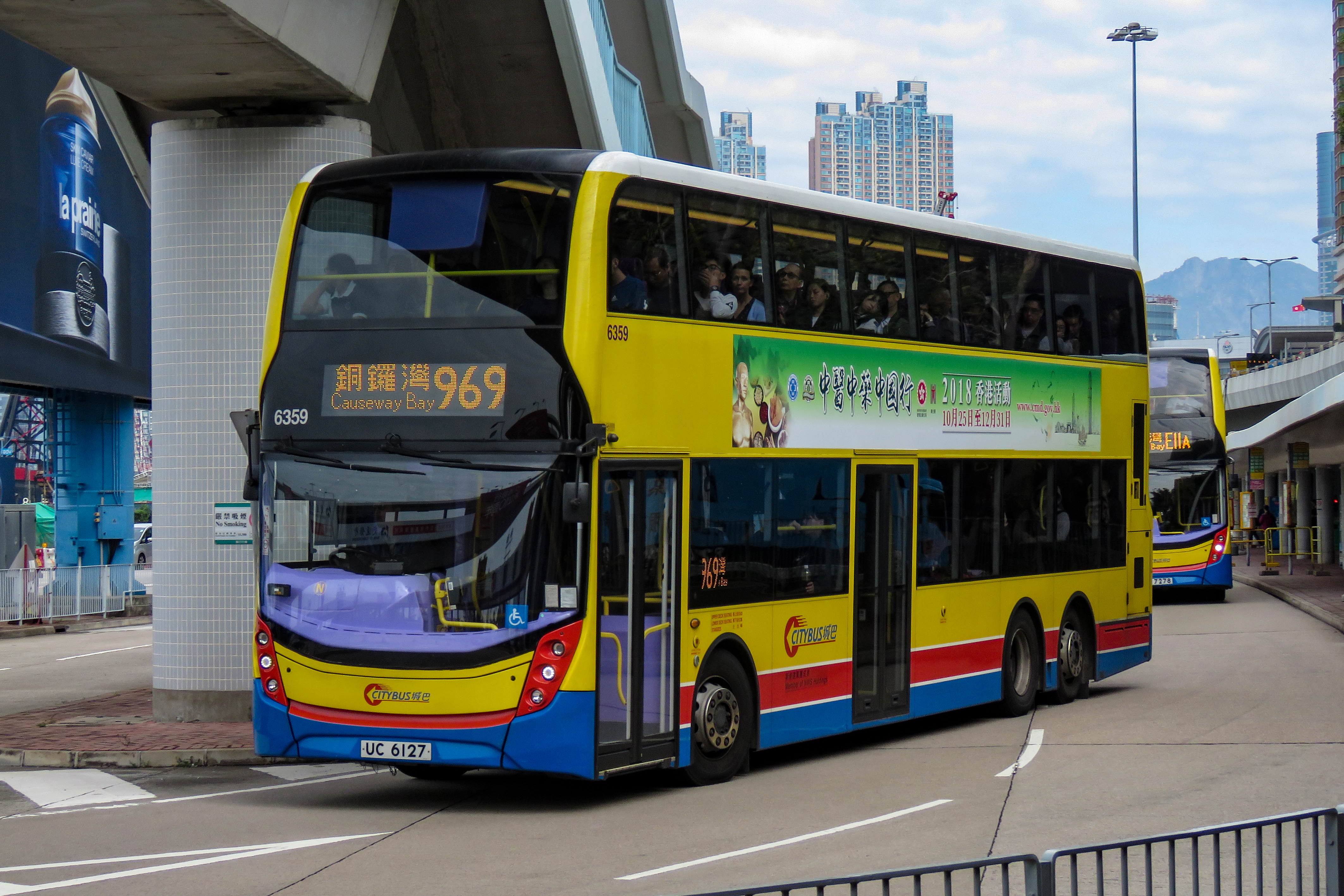 When I took this photograph, 6359 was nothing special, but three months later, it was badly damaged after crashing into a truck near this place when operating route 967, killing the Citybus driver and the truck driver.